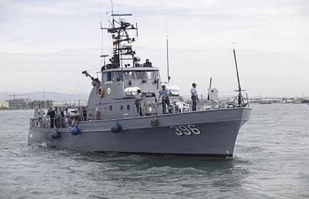 The Philippine Navy's BRP Abraham Campo (PG-396), an Alberto Navarette-class patrol boat